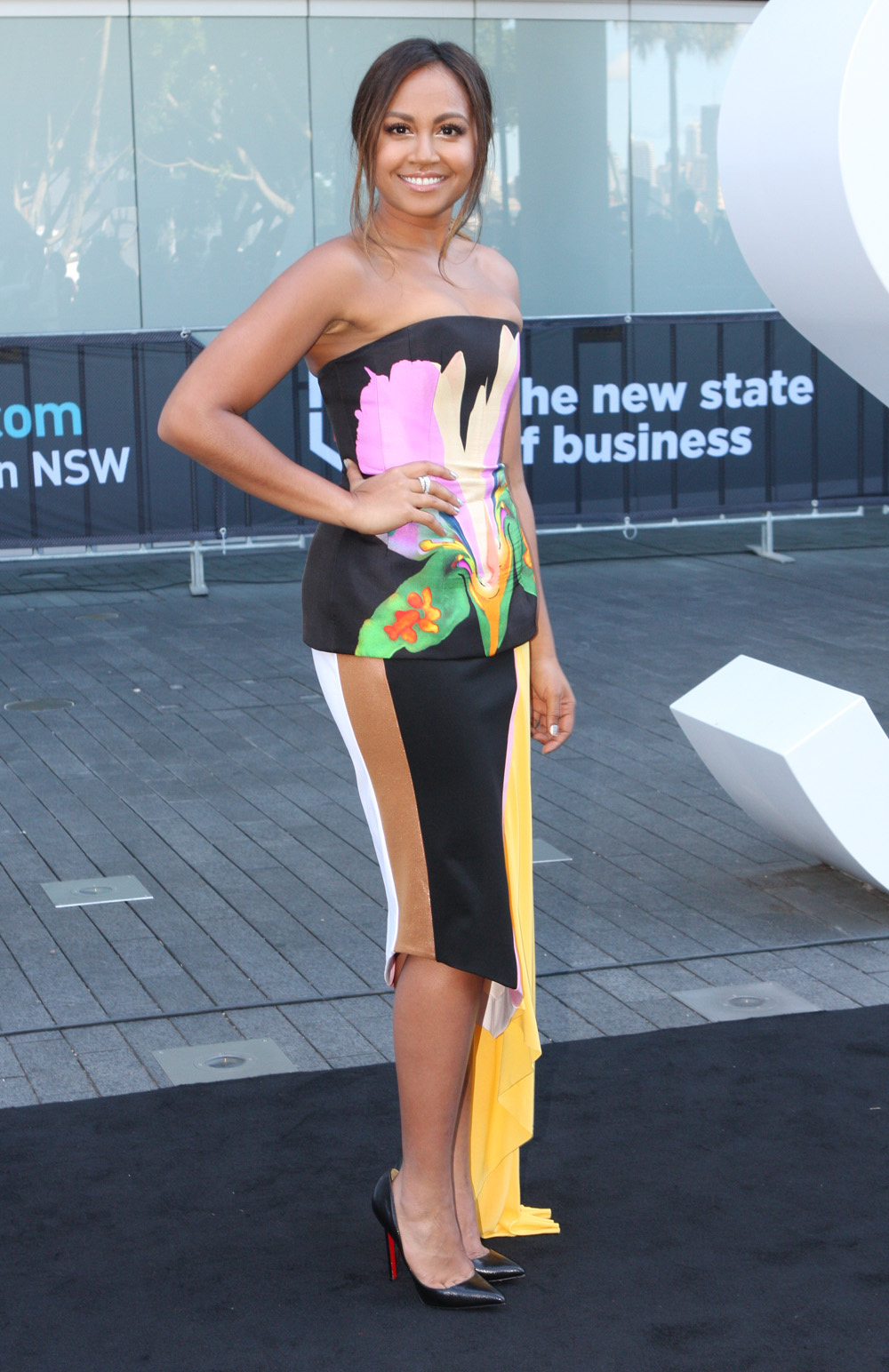 Aria Awards 2013 in Sydney Australia